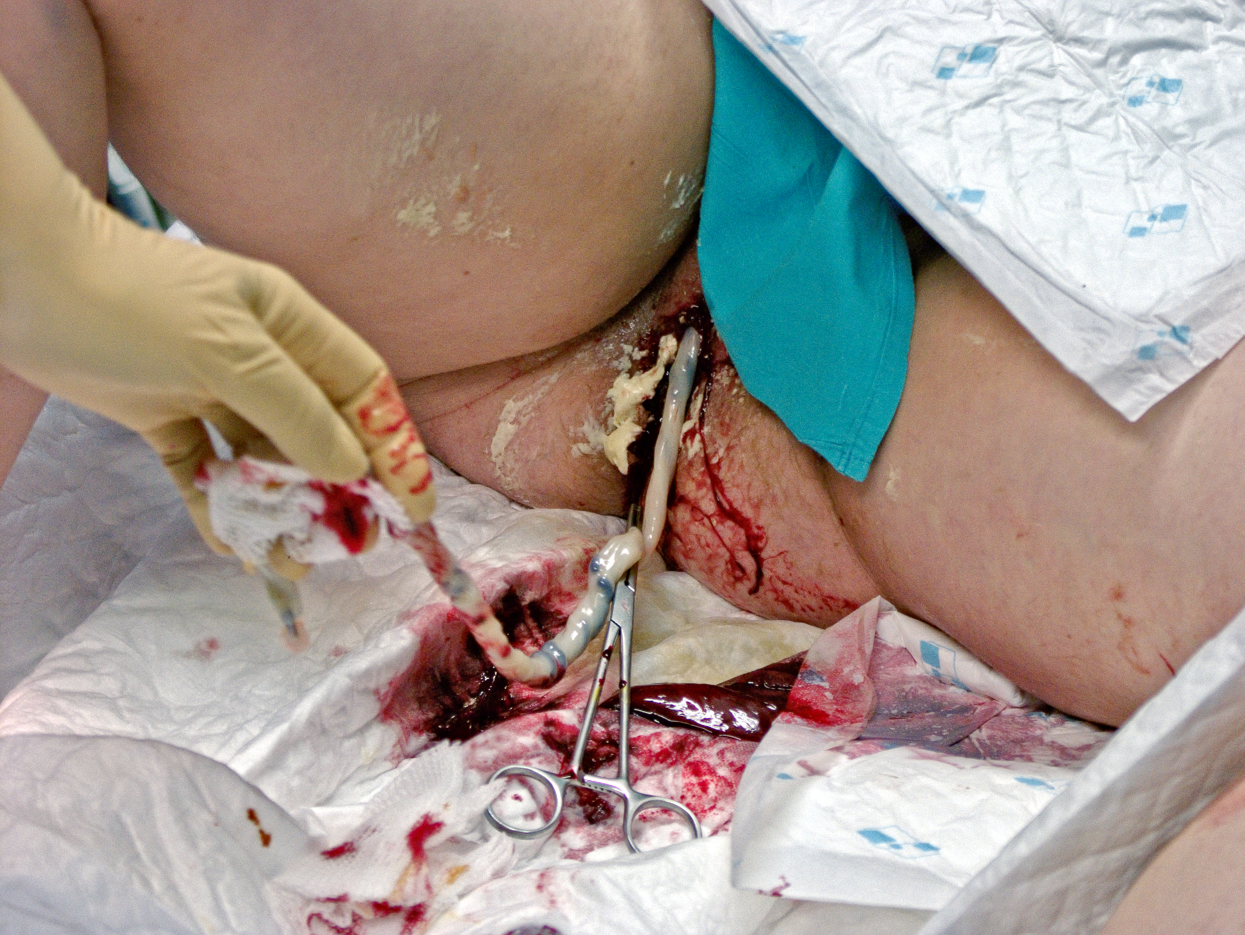 Cutting of the umbilical cord, placenta still undelivered.